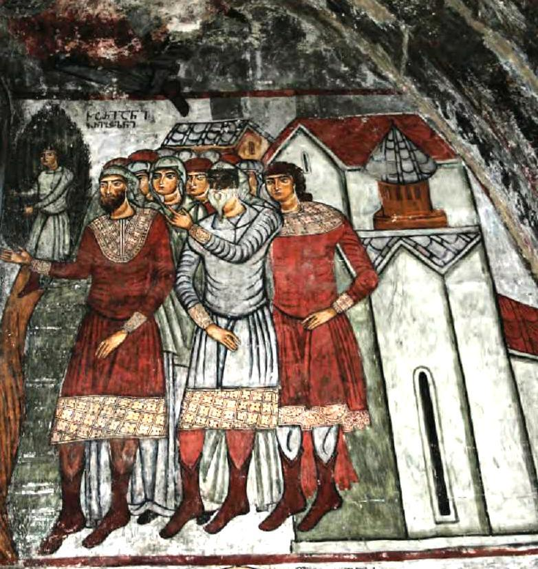 A fresco from the Matskhvarishi church in Svaneti, Georgia